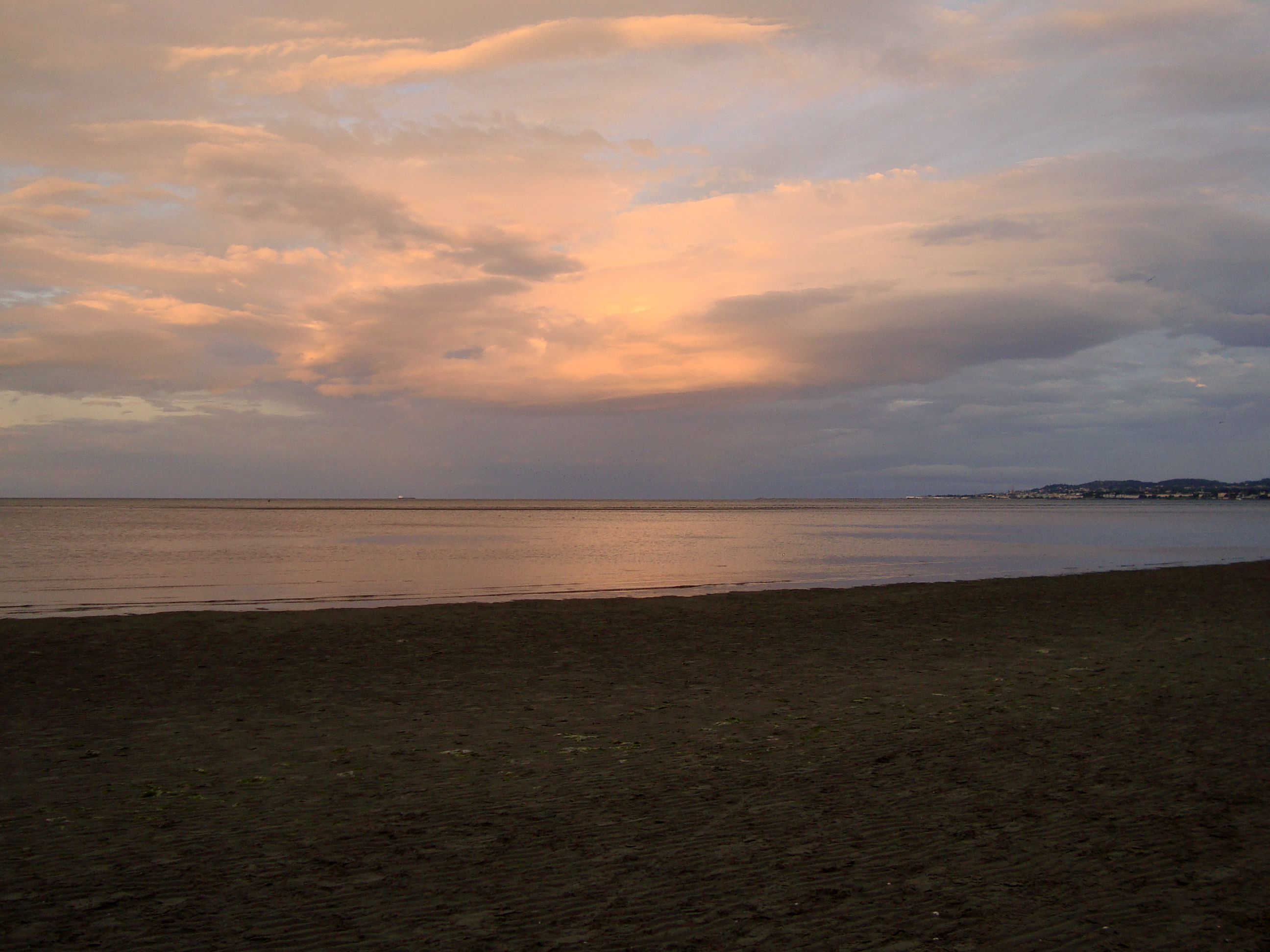 This is an image of the Biosphere Reserve or a Geopark: Dublin Bay Biosphere Reserve